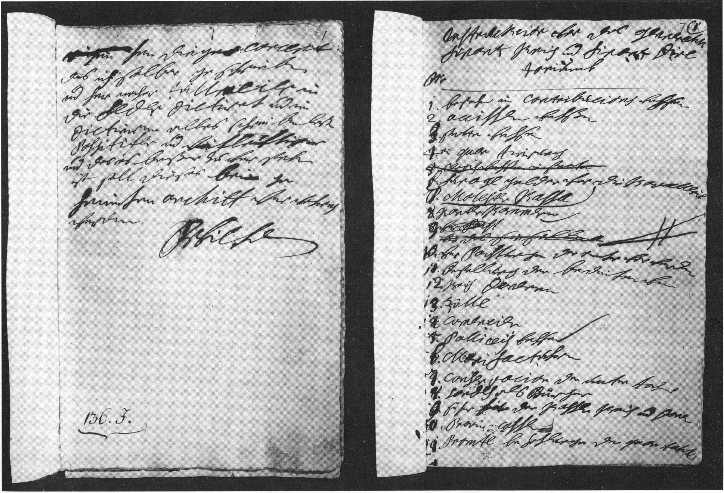 Autograph instruction of Frederick William I of Prussia for the Generaldirektorium. Geheimes Staatsarchiv Preußischer Kulturbesitz